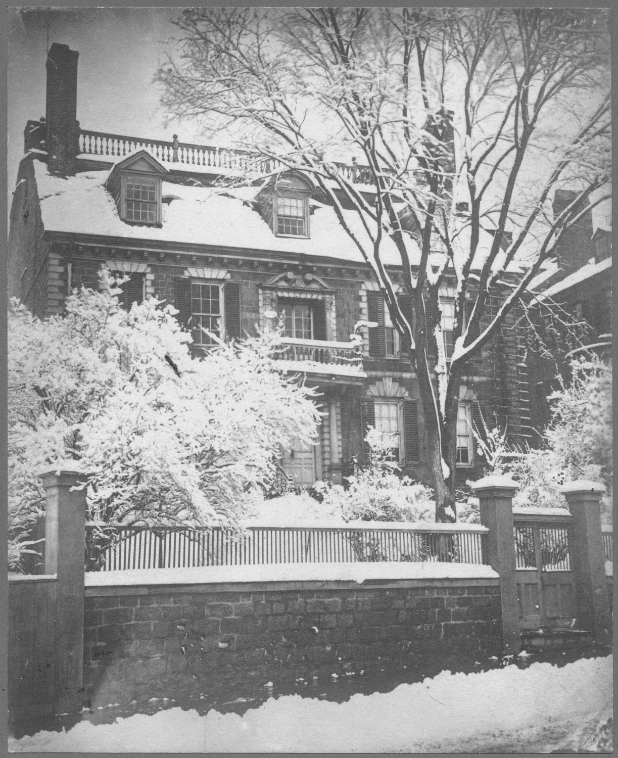 Accession No.: 07_10_000089 Cab. No.: Cab 23.58.1 Title: The Hancock Mansion, Beacon Street Date: 1860 (approximate) Genre: Photographs Description: Copy photograph made circa 1898 from original photograph. Shows Hancock House in the snow. Built in 1737, the house was razed in 1863. BPL Department: Print Department |Source=The Hancock Mansion, Beacon Street |Date=2008-05-21 11:14 |Author=BPL